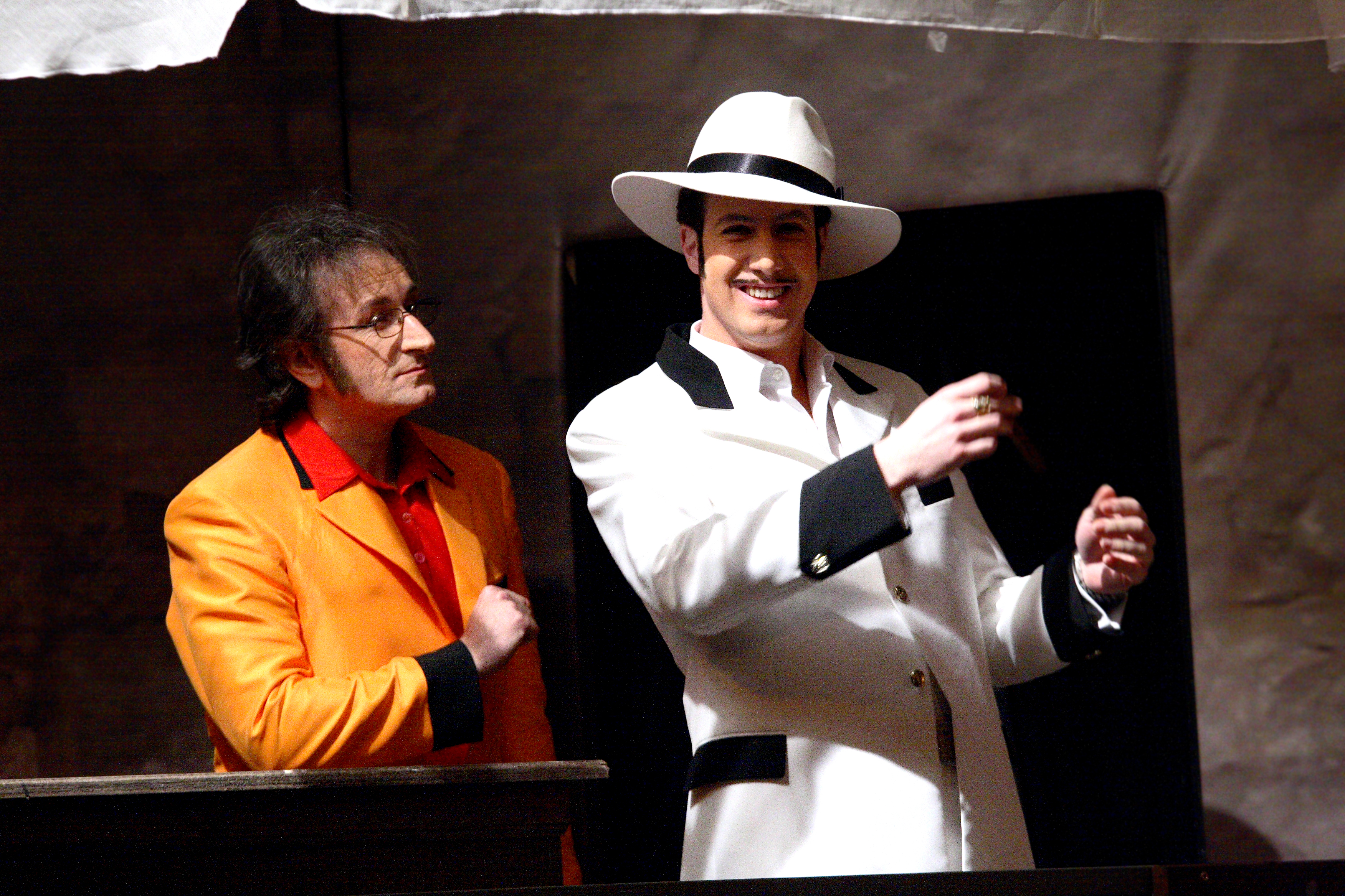 Vesselin Stoykov as Dr. Dulcamara